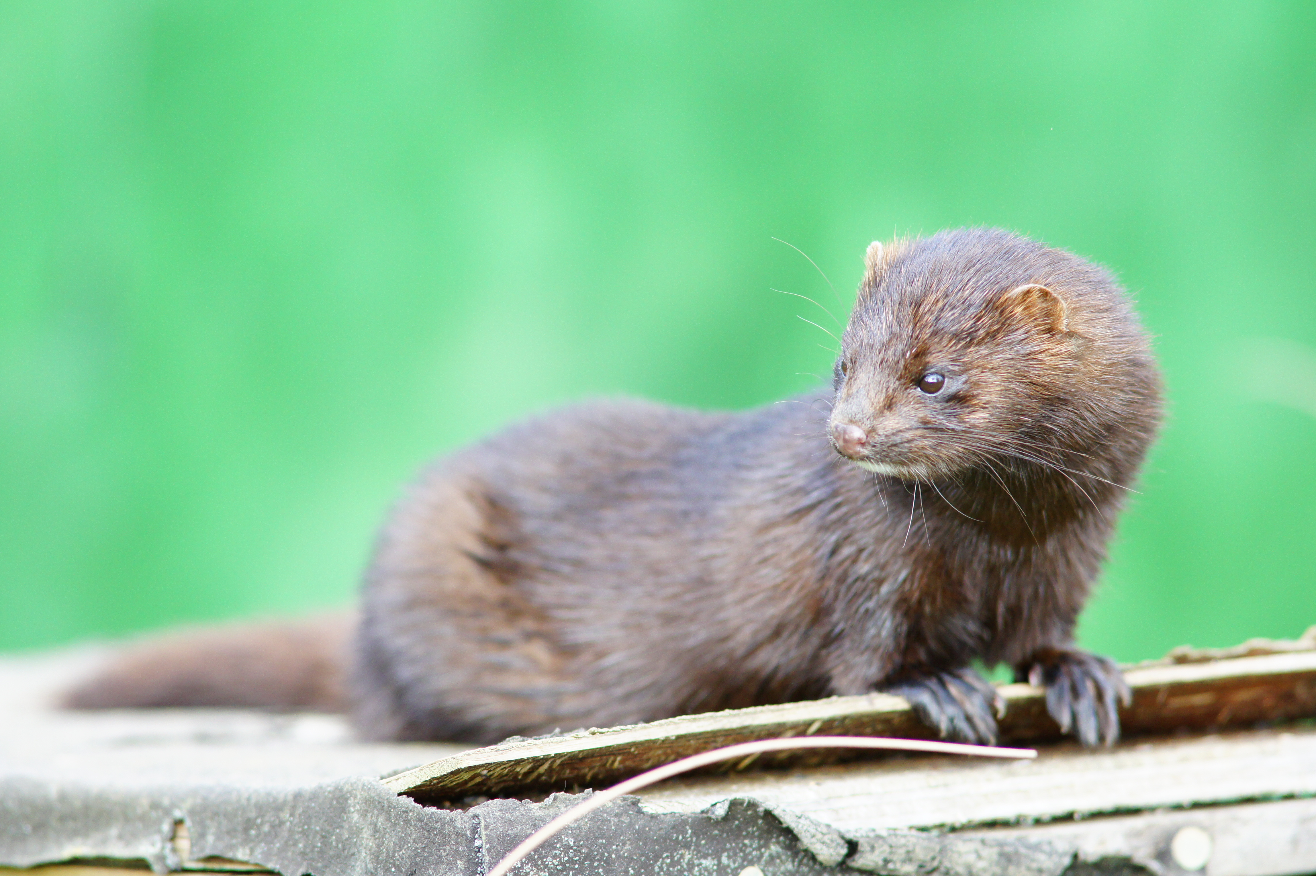 American Mink at the British Wildlife Centre, Newchapel, Surrey